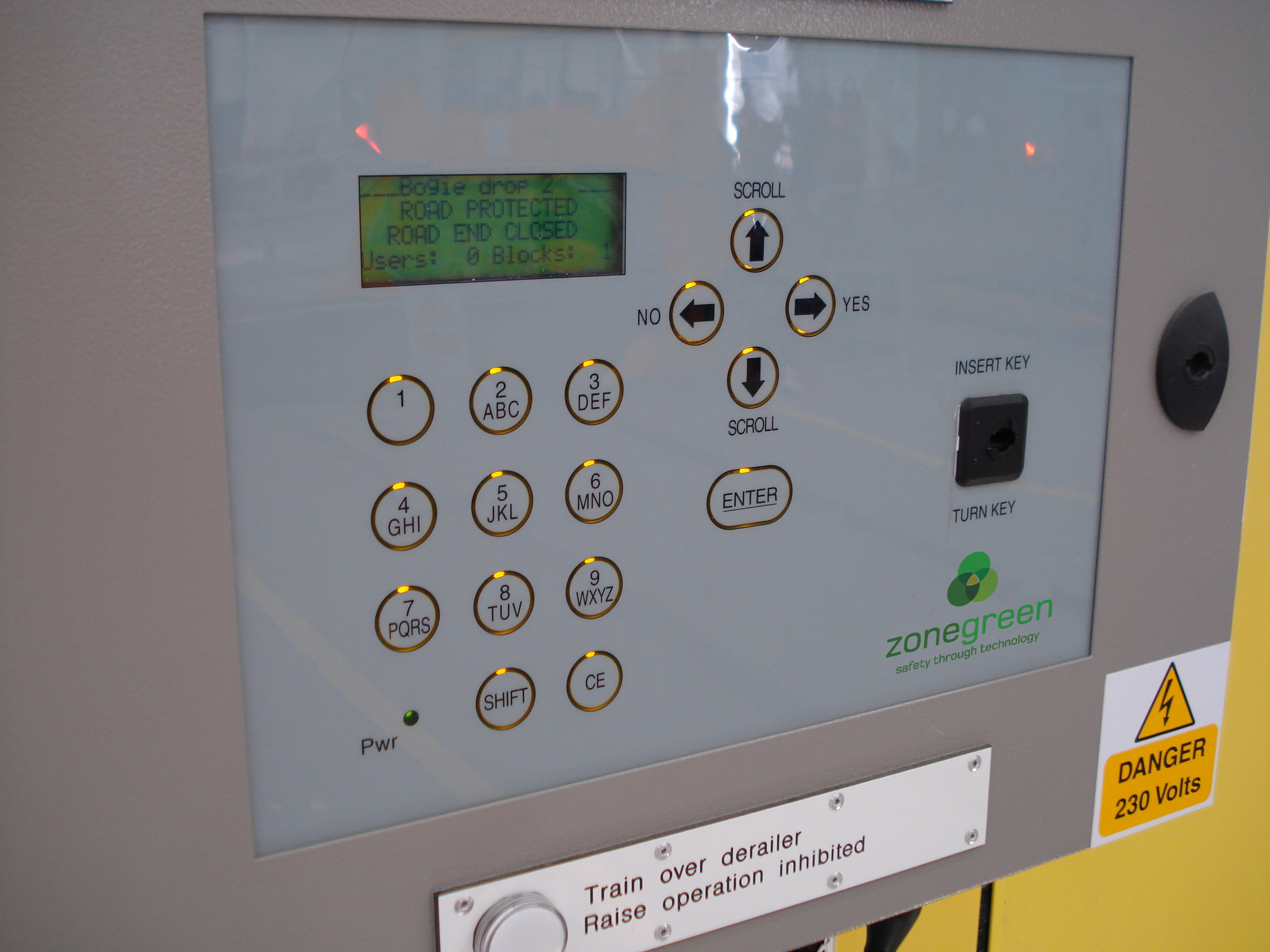 Advance Depot Protection System - Road End Control Panel